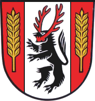 Coat of Arms of Langenwetzendorf